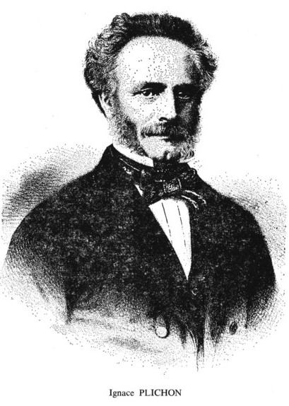 Charles Ignace Plichon (28 June 1814 – 3 June 1888) was a French lawyer, businessman and politician.